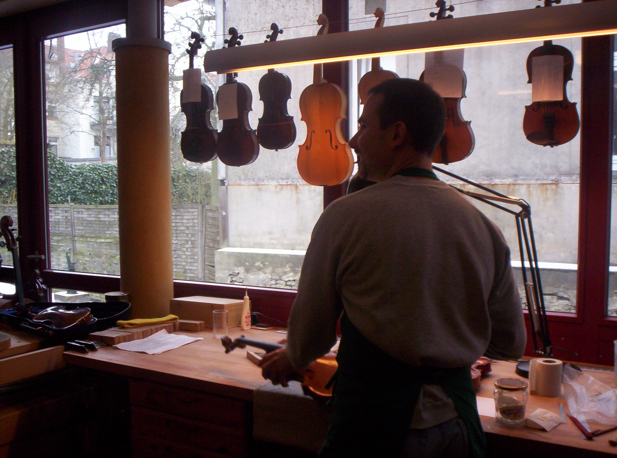 Violin shop in Detmold, Germany.